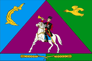 Flag of Primorsko-Akhtarsk, Krasnodar Territory, Russia